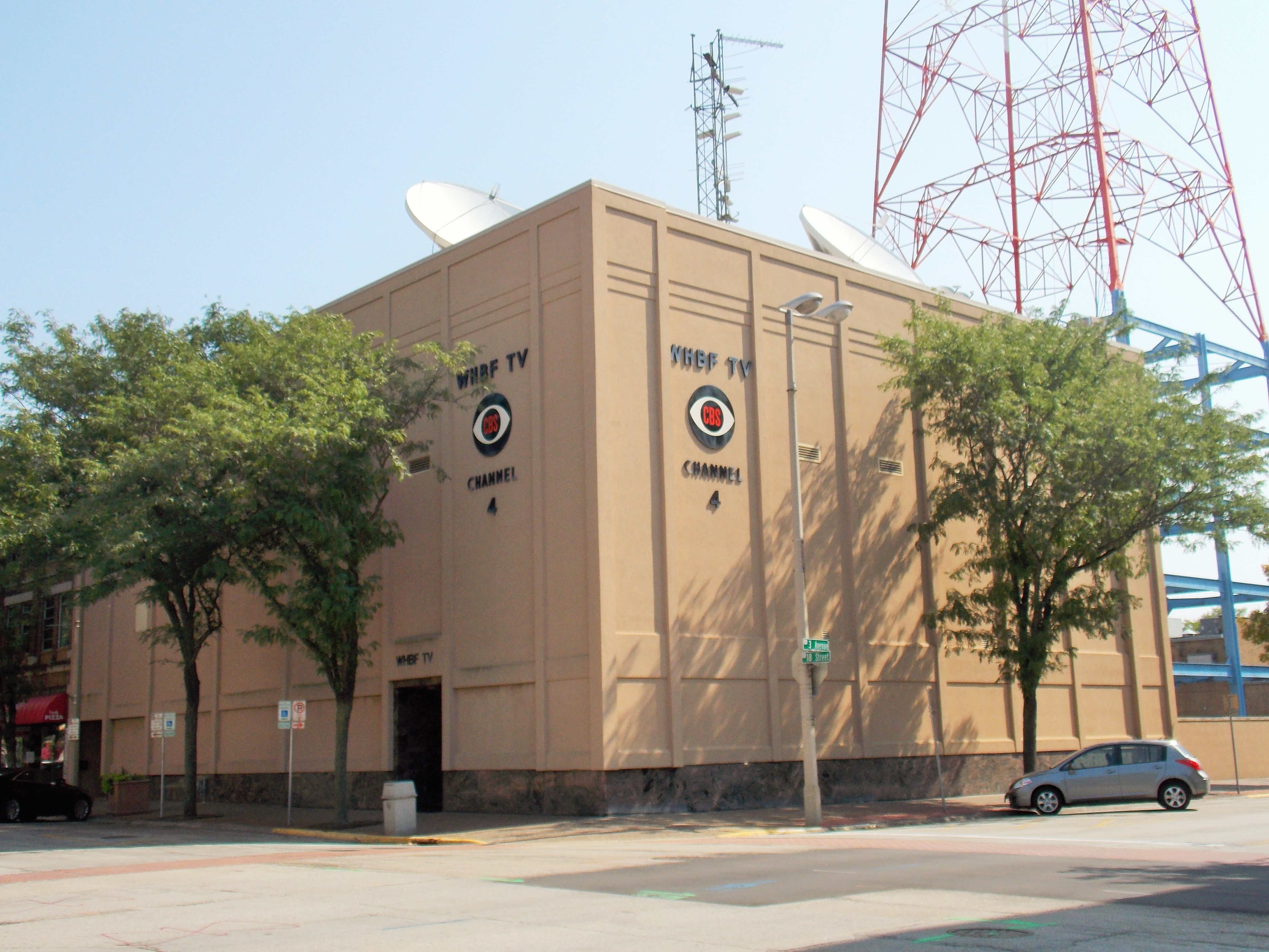 The studios for WHBF television in downtown Rock Island, Illinois.